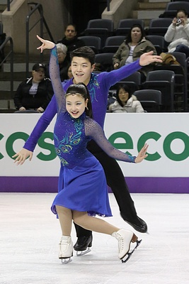 Maia Shibutani and Alex Shibutani at the World Championships 2013